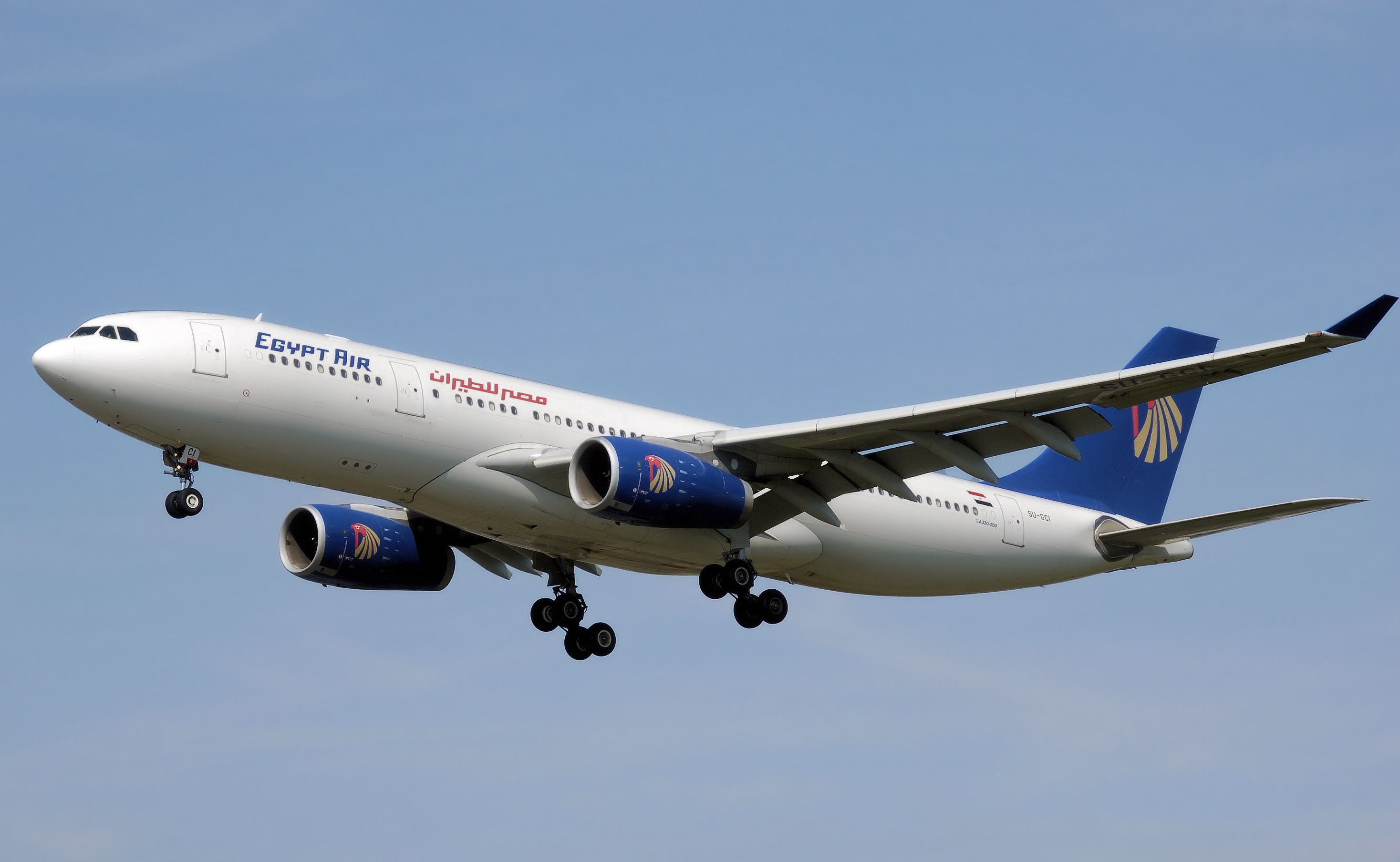 Egyptair Airbus A330-200 (SU-GCI) lands at London Heathrow Airport.